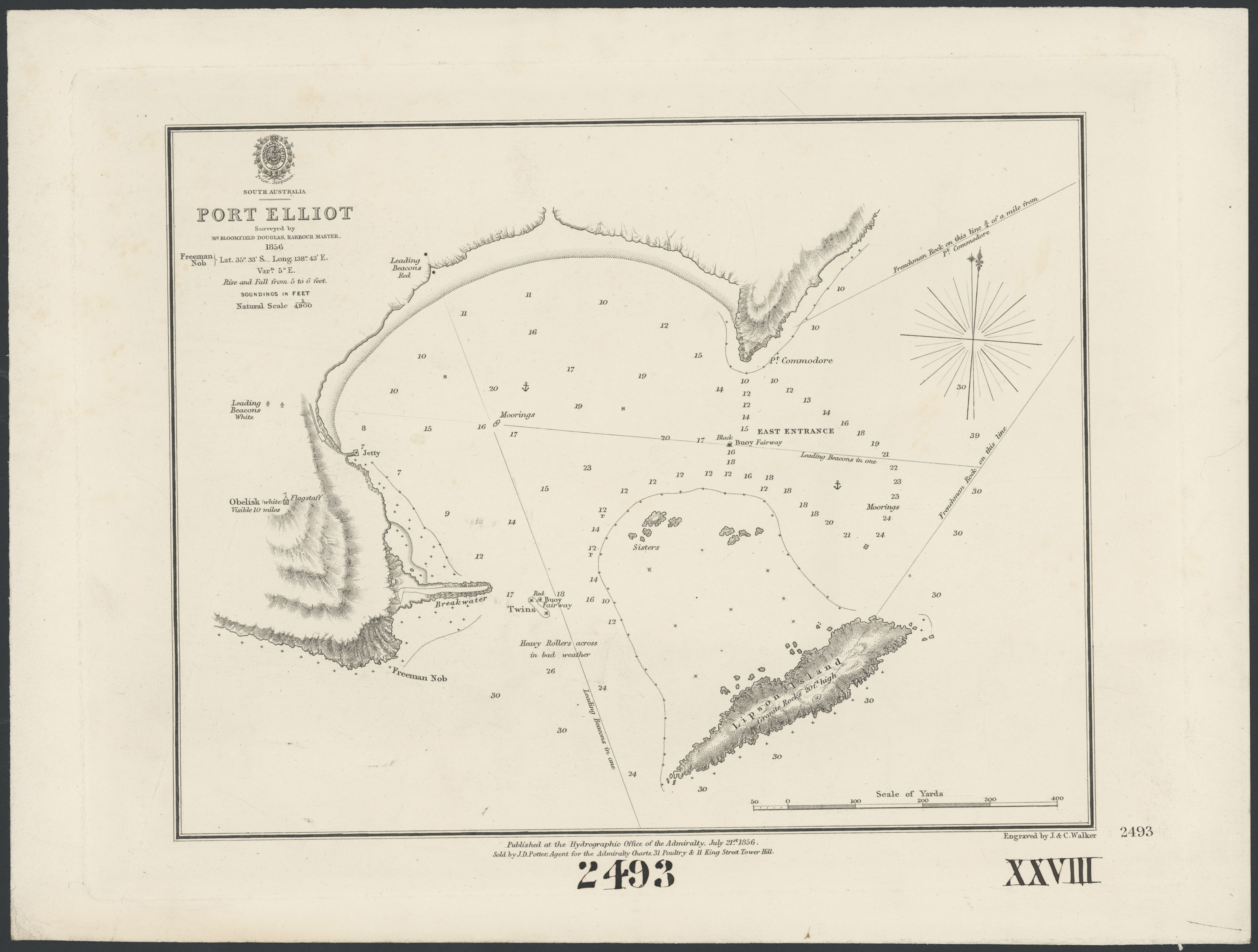 Nautical chart of South Australia, Port Elliot. Surveyed by Mr. Bloomfield Douglas, Harbour Master, 1856. Not current - not to be used for navigation!